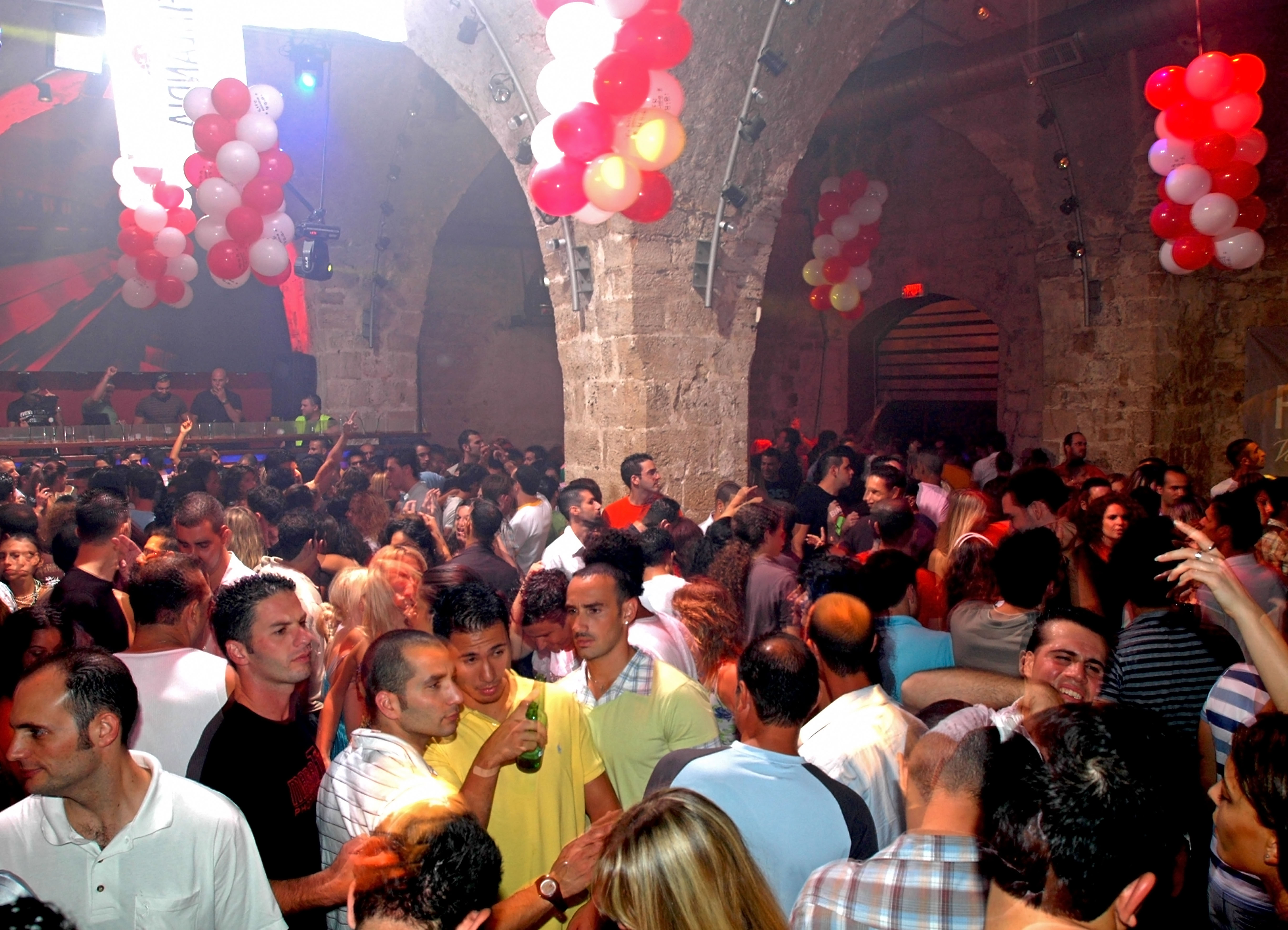 Partygoers in one of the night clubs in Haifa in Al Pasha Complex